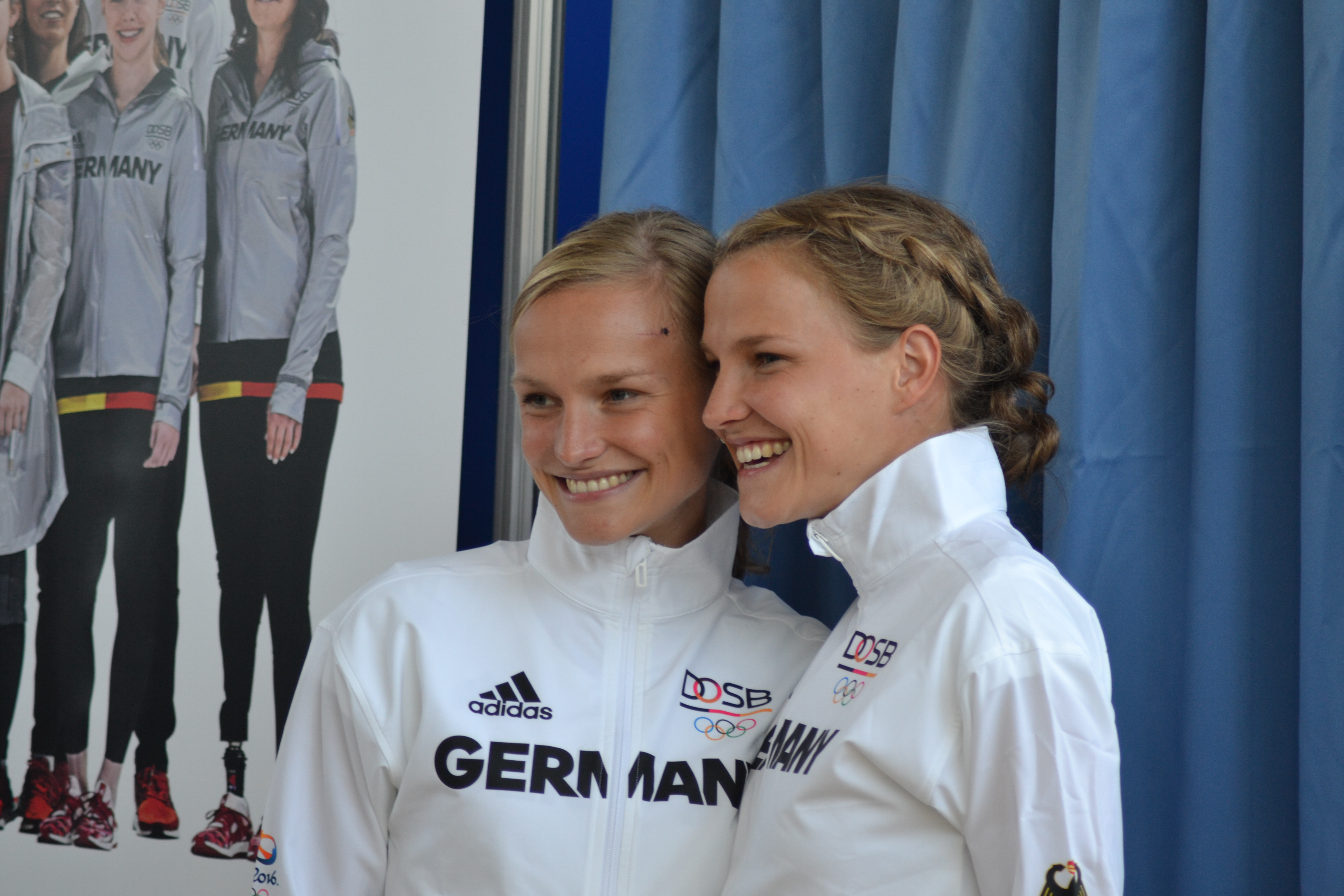 Media day of the clothing of the German Olympic team for Rio 2016 in the Emmich-Cambrai-Kaserne in Hanover. Pictured persons see Categories.